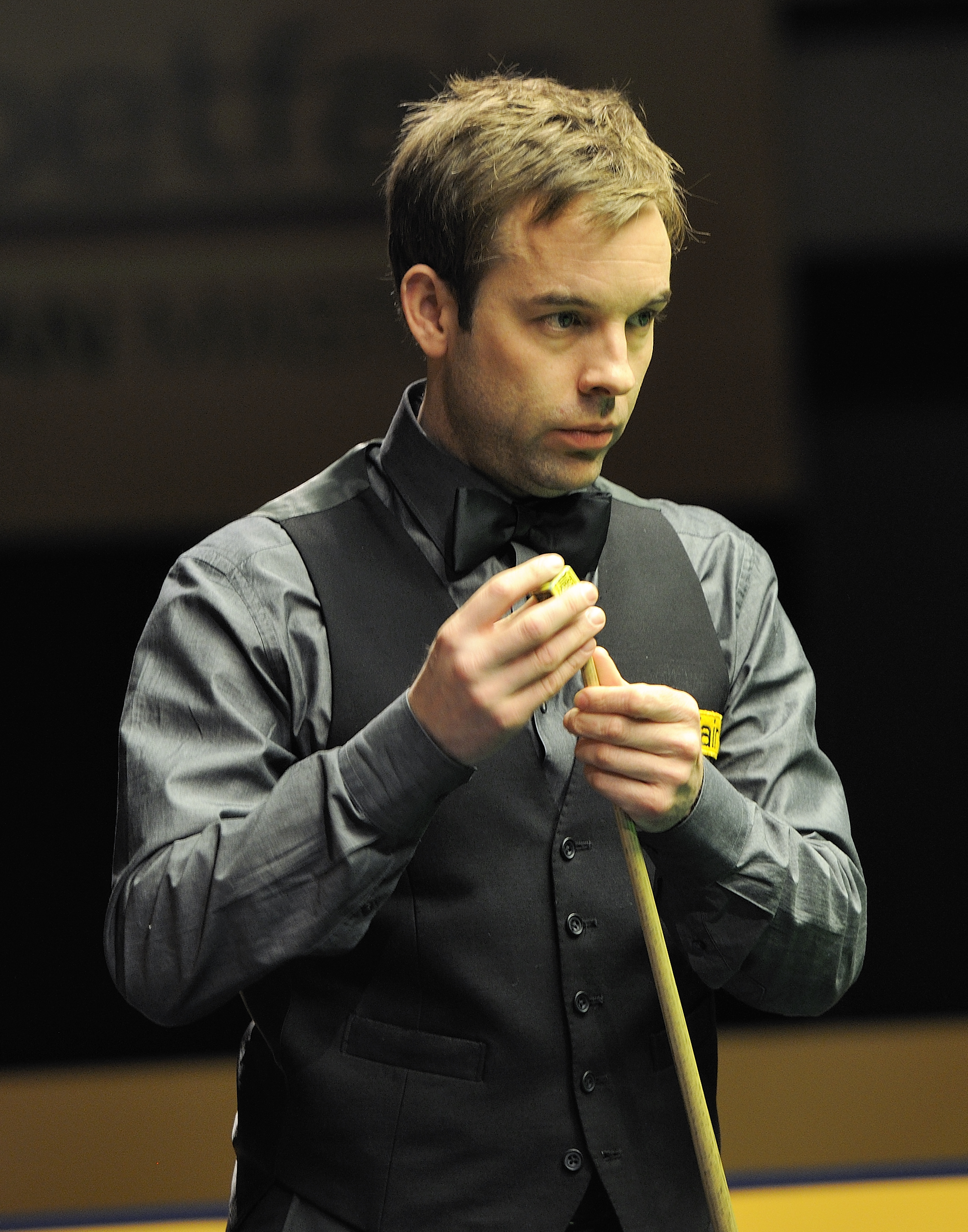 Picture taken in Berlin during the Snooker German Masters in 2013. Ali Carter.